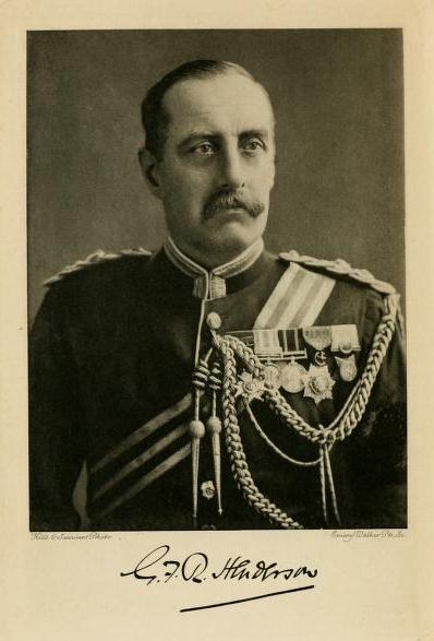 George Francis Robert Henderson from The science of war (1912)